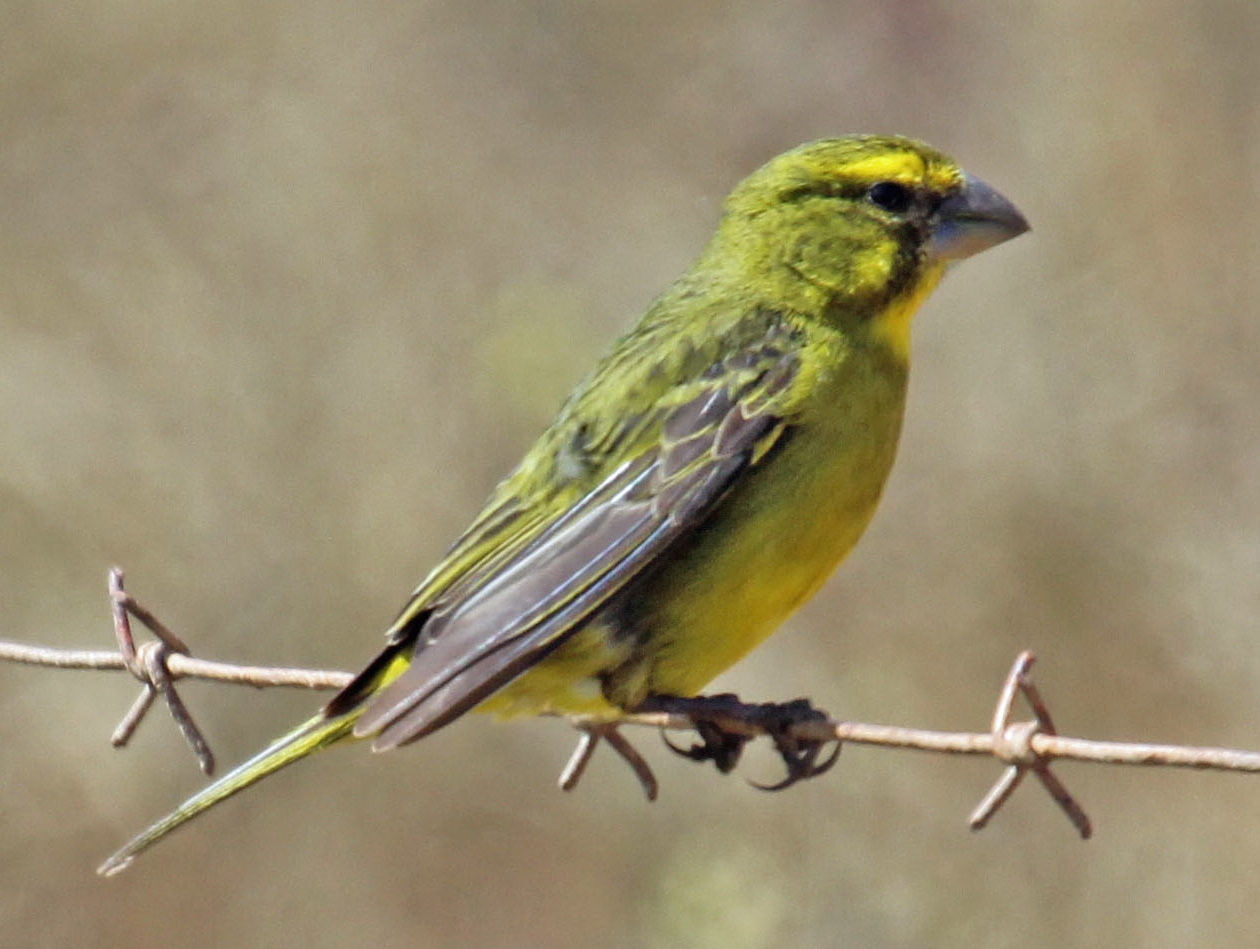 Brimstone Canary (Serinus sulphuratus) near De Hoop Nature Reserve, South Africa